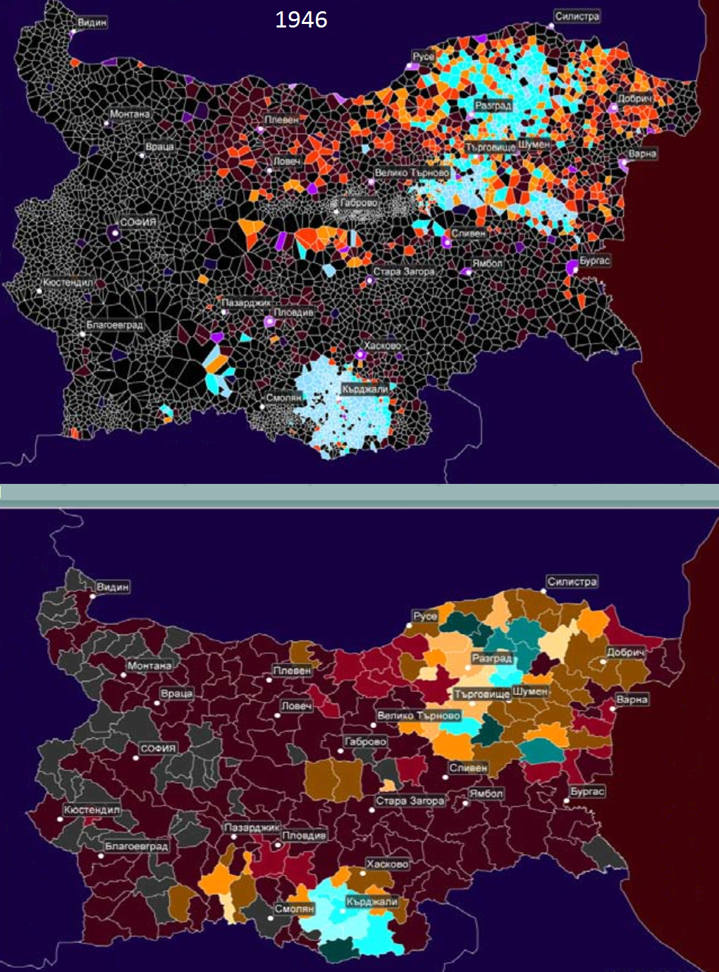 Distribution of the ethnic Turks in Bulgaria according to the 1946 census. Their frequency descends from blue color, to orange/red and purple and from their lighter to darker shades.